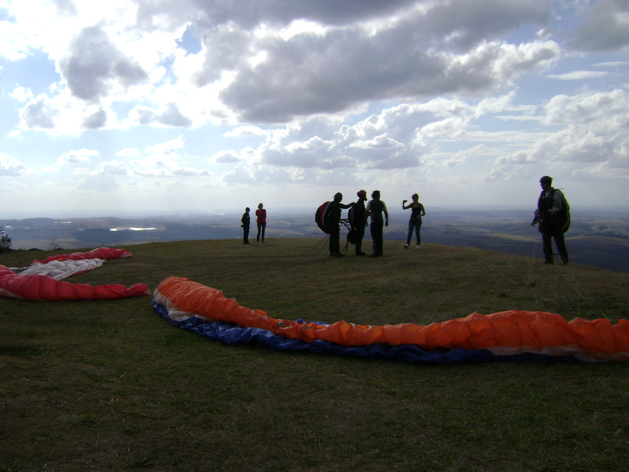 Preparação para voo no Horizonte Perdido, em Araxá, Minas Gerais, Brasil.